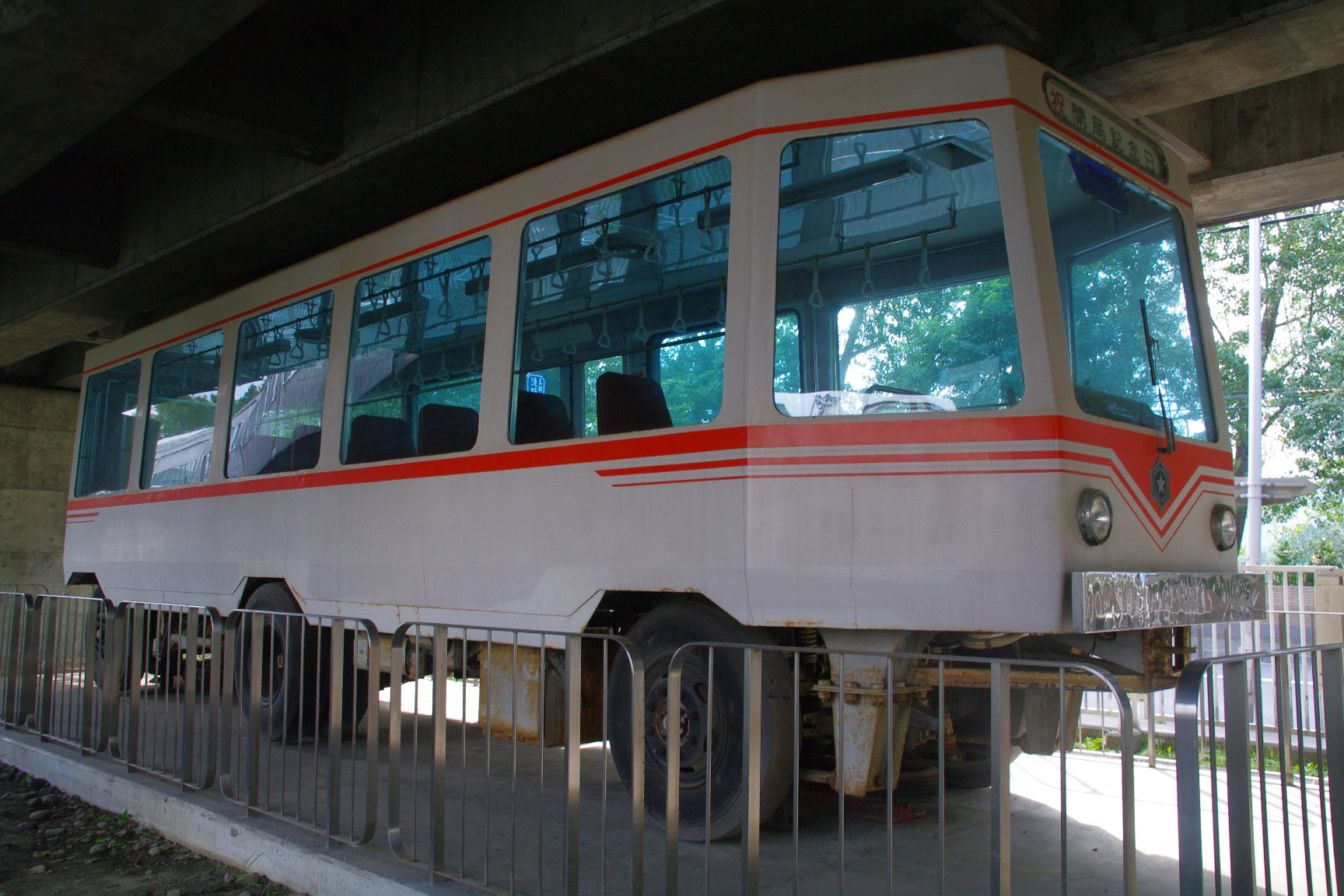 Sapporo subway Nanboku line examination car Harunire.